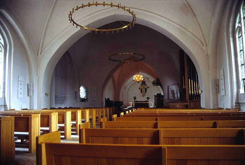 Haslev Kirke (church) in Faxe Kommune